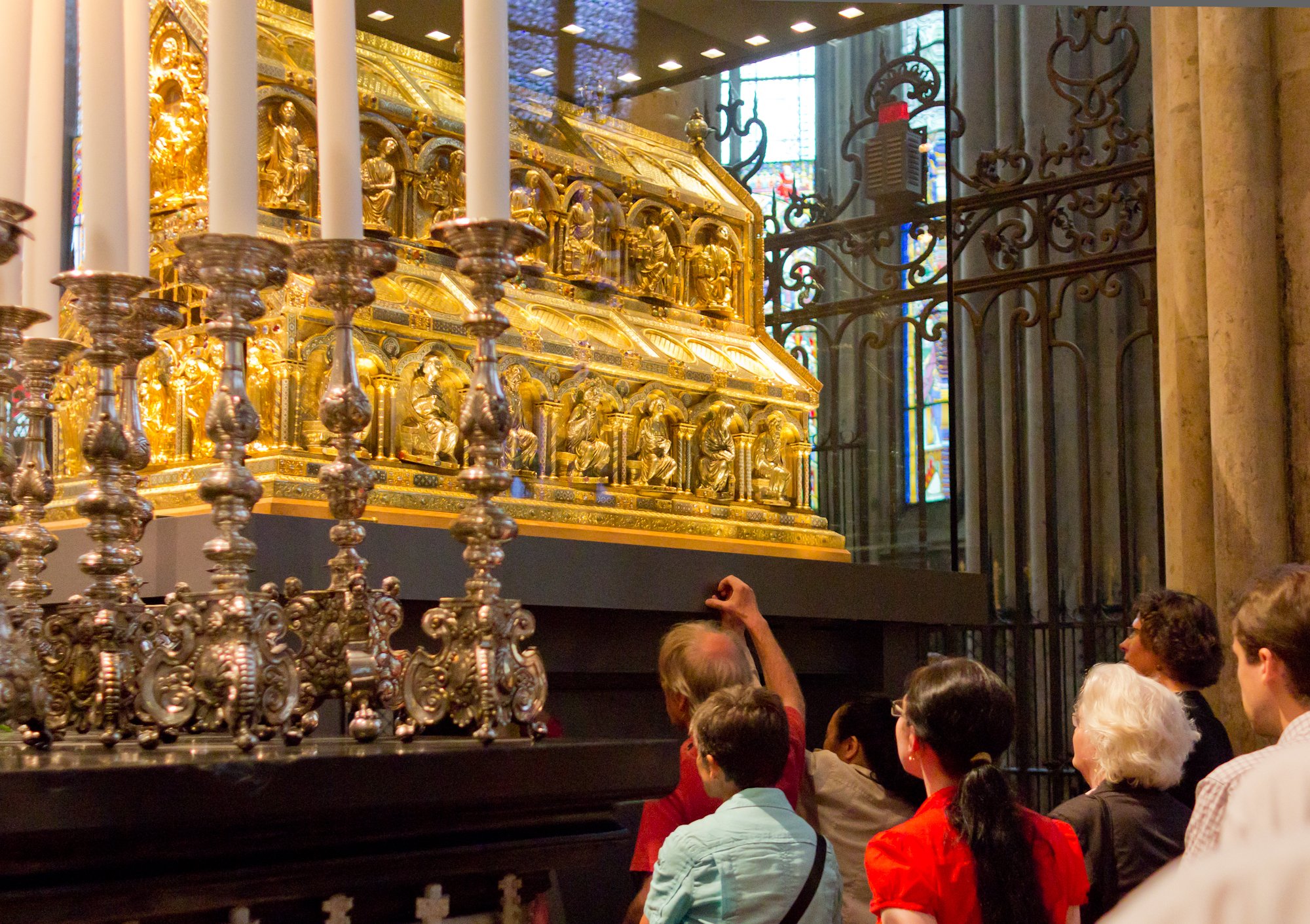 Cologne Cathredral, Shrine of the Three Kings. On special occations like the relics' 850th transfer anniversary, pilgrims may pass underneath the shrine.